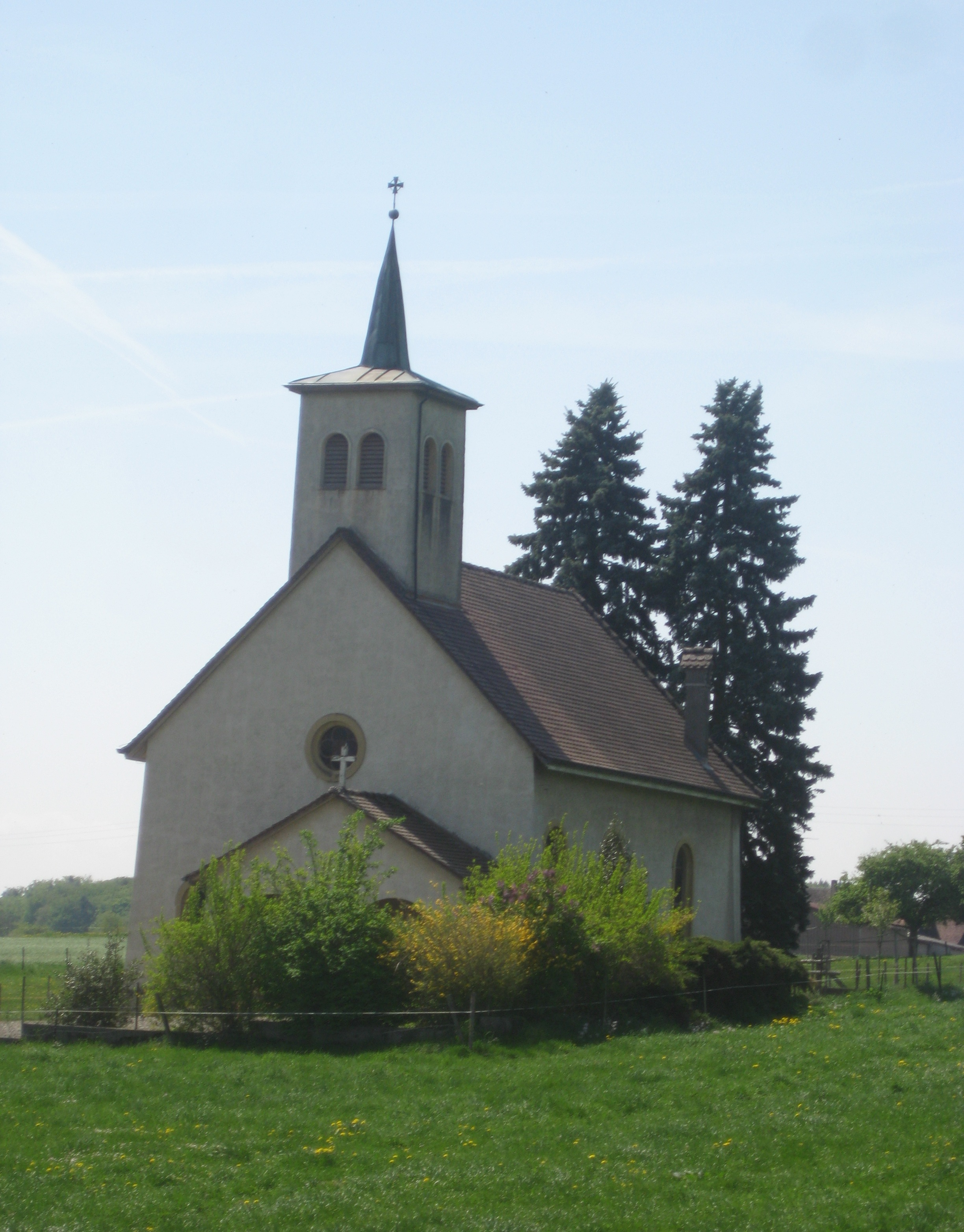 Forel-sur-Lucens church